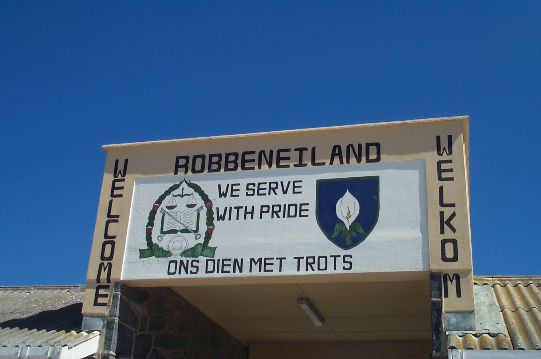 gate to Robben Island.